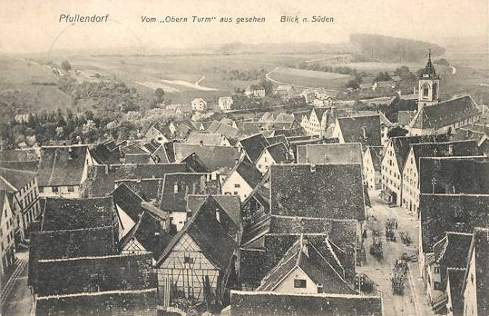 Pfullendorf seen from the Upper Tower. Circa 1900. Postcard postally used in 1907.